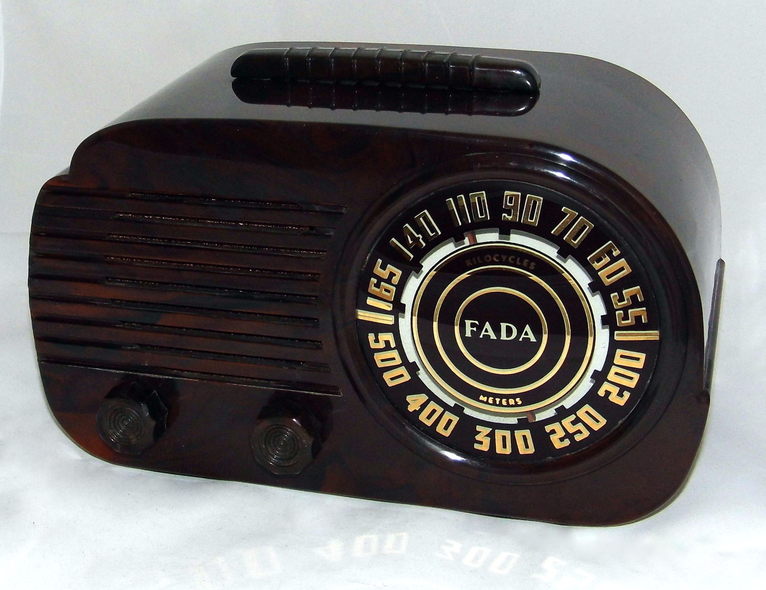 Vintage Fada Table Radio, Model 845 (Cloud), Broadcast Band Only, Walnut Styrene Cabinet, Circa 1947